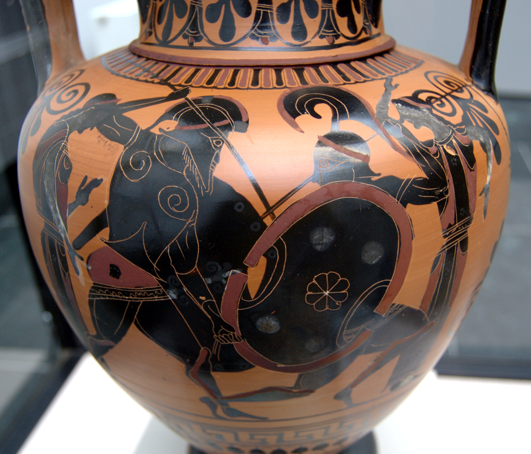 Achilles and Memnon, between Thetis and Eos. Side B of an Attic black-figure amphora, ca. 520 BC. From Vulci.